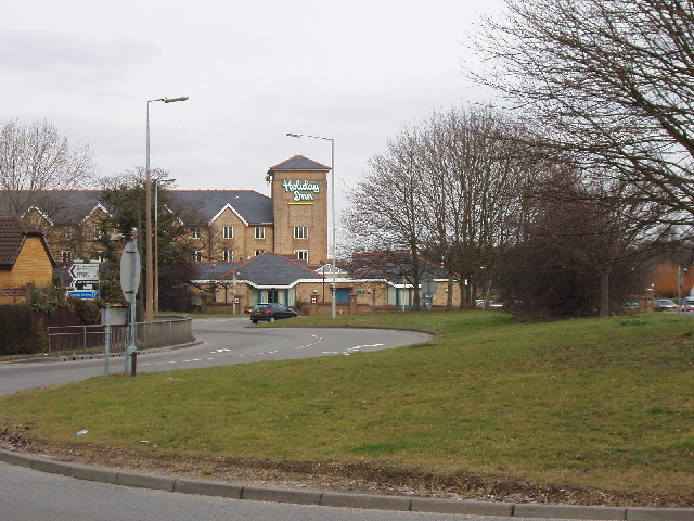 Hotel in Borehamwood, formerly The Thatched Barn. The roundabout is the Junction off the A1 for the A5135 into Borehamwood. What is now a Holiday Inn was formerly a Moat House, a hotel built in 1989. It is the site of The Thatched Barn, a roadhouse on the A1 built in 1927 and frequented by stars from Elstree Studios. Later it was bought by Billy Butlin. In the war it was used by SOE (Special Operations Executive) for development of bombs and secret weapons. In the 1960s it became a Playboy Club.